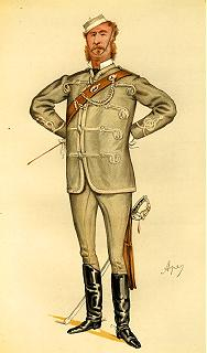 Robert William Edis by Carlo Pellegrini.